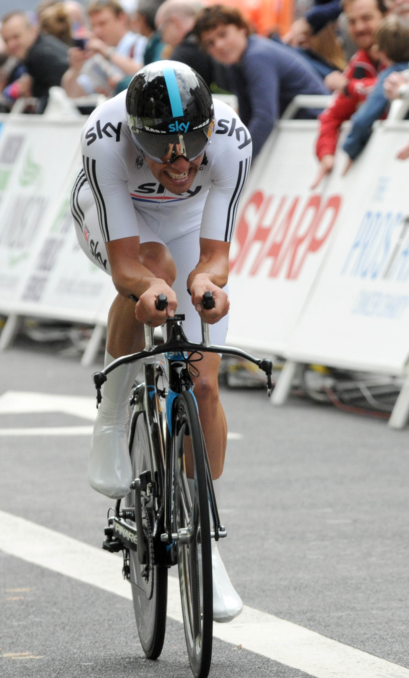 Alex Dowsett riding the Stage 8a time trial in the 2011 Tour of Britain